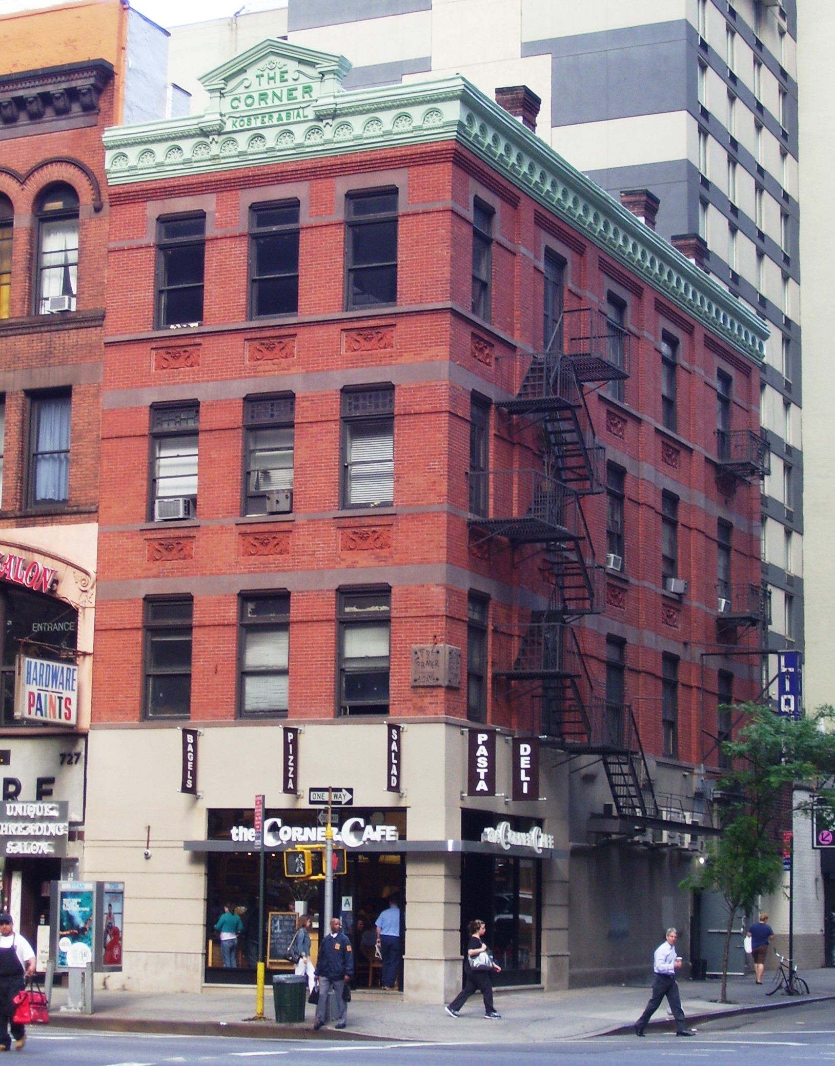 727 Sixth Avenue (Avenue of the Americas) at the corner of West 24th Street in the Chelsea neighborhood of Manhattan, New York City was built in 1870. At the top, the building is named "The Corner / Koster & Bials": the building was originally a beer garden annex for their Vaudeville Theater/Concert Hall. From 1970 until 2001 it was the location of "Billy's Topless". (Sources: Forgotten New York and New York Songlines)